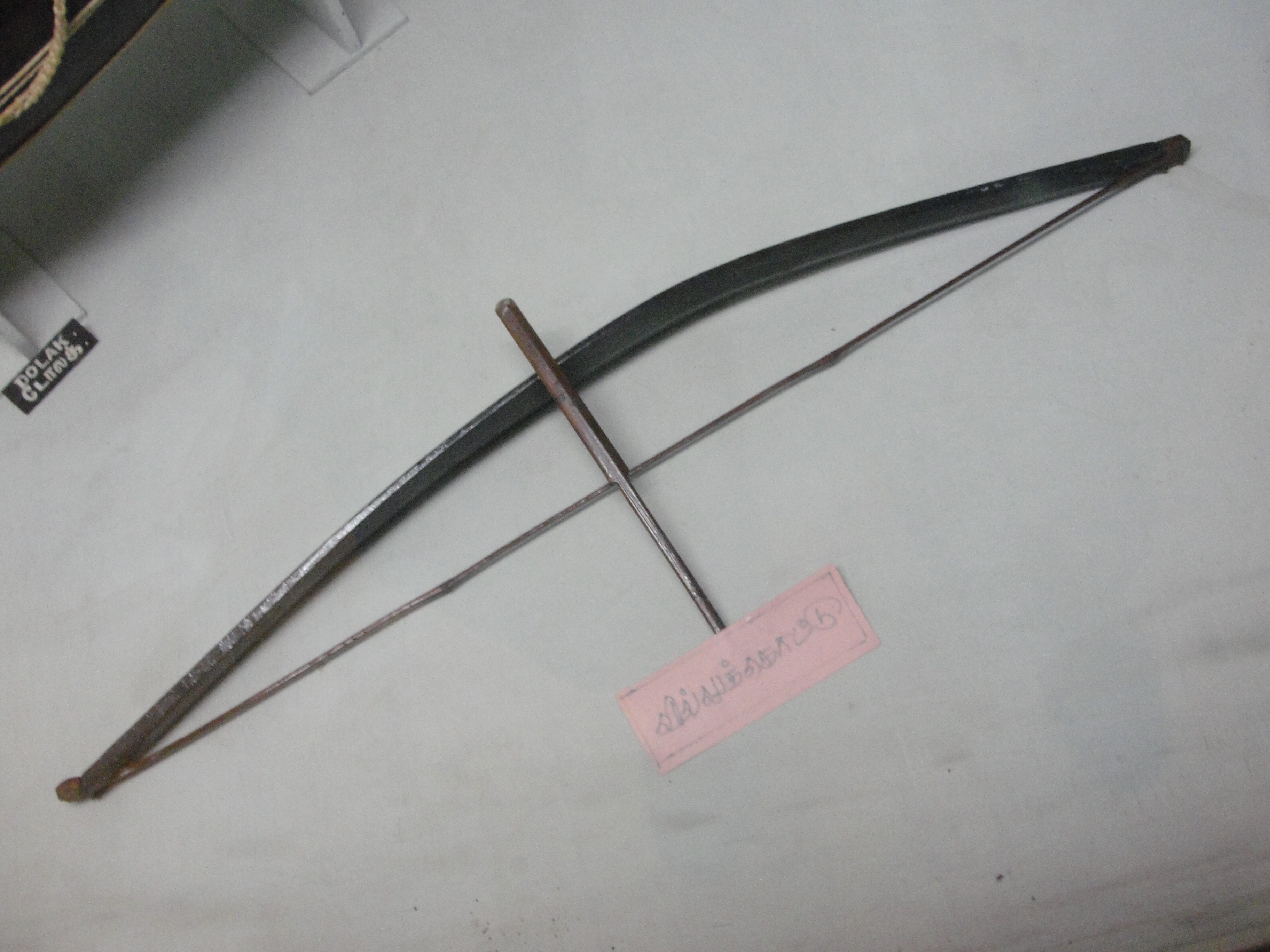 A Villukkottu